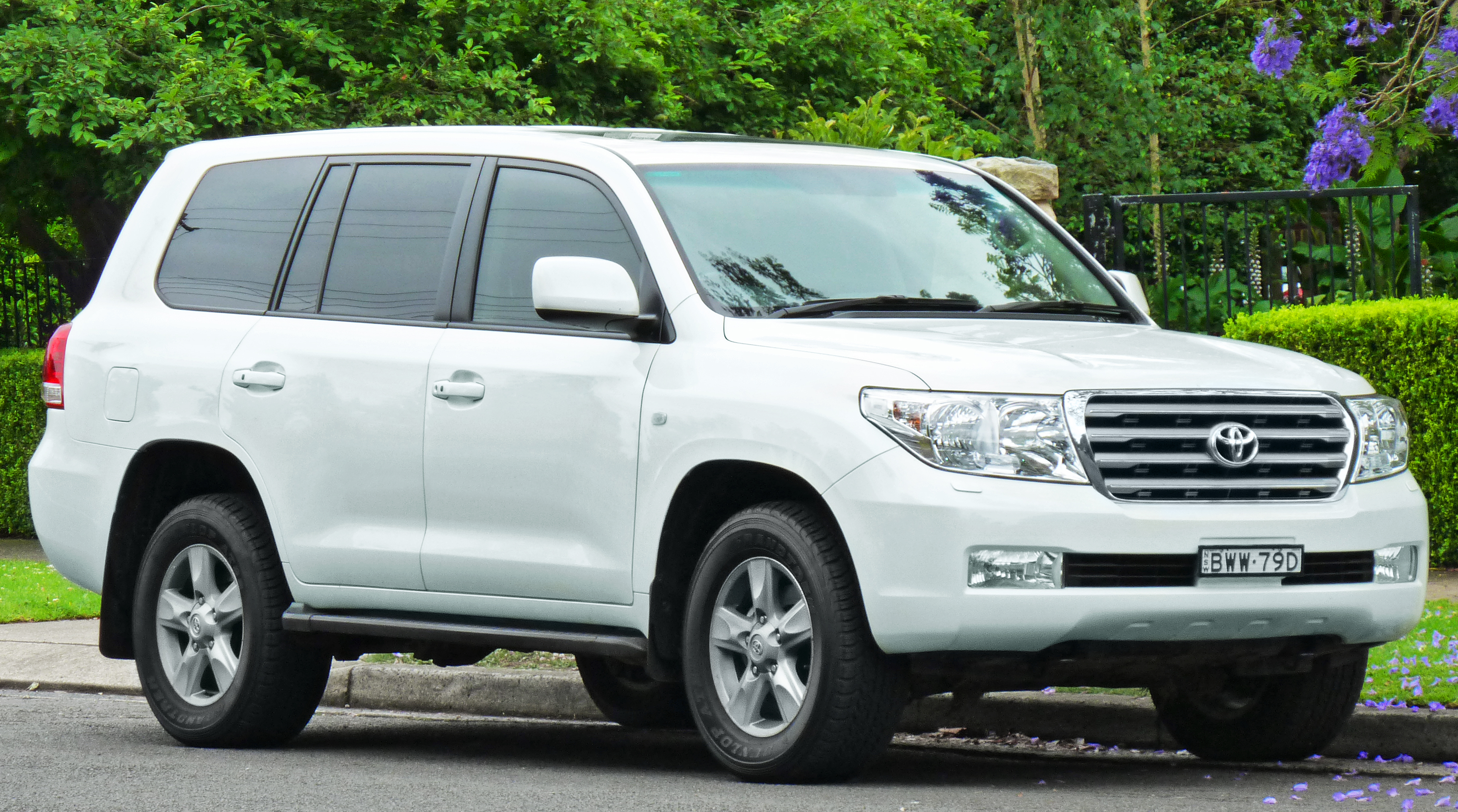 2011 Toyota Land Cruiser (UZJ200R) Sahara wagon. Photographed in Lindfield, New South Wales, Australia.